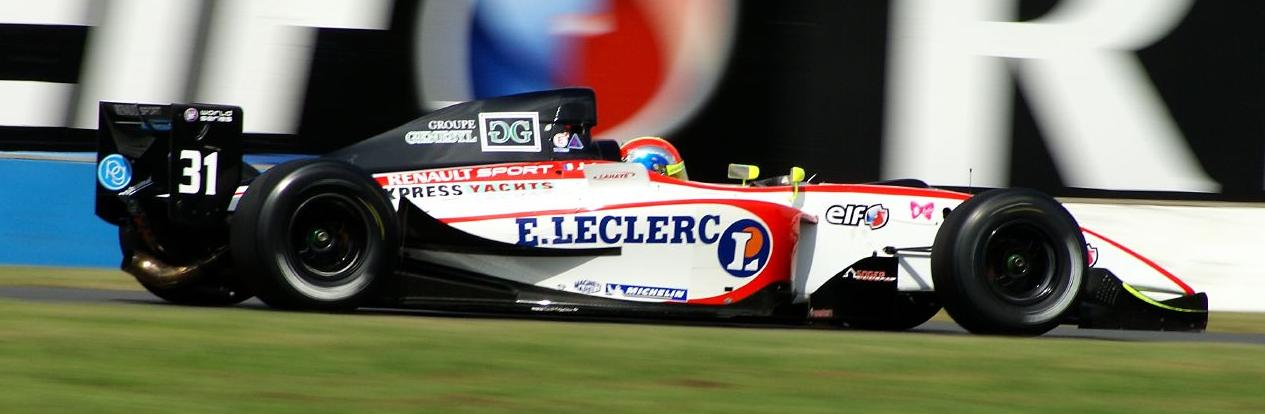 Julien Jousse driving at the Donington Park round of the 2007 World Series by Renault season.